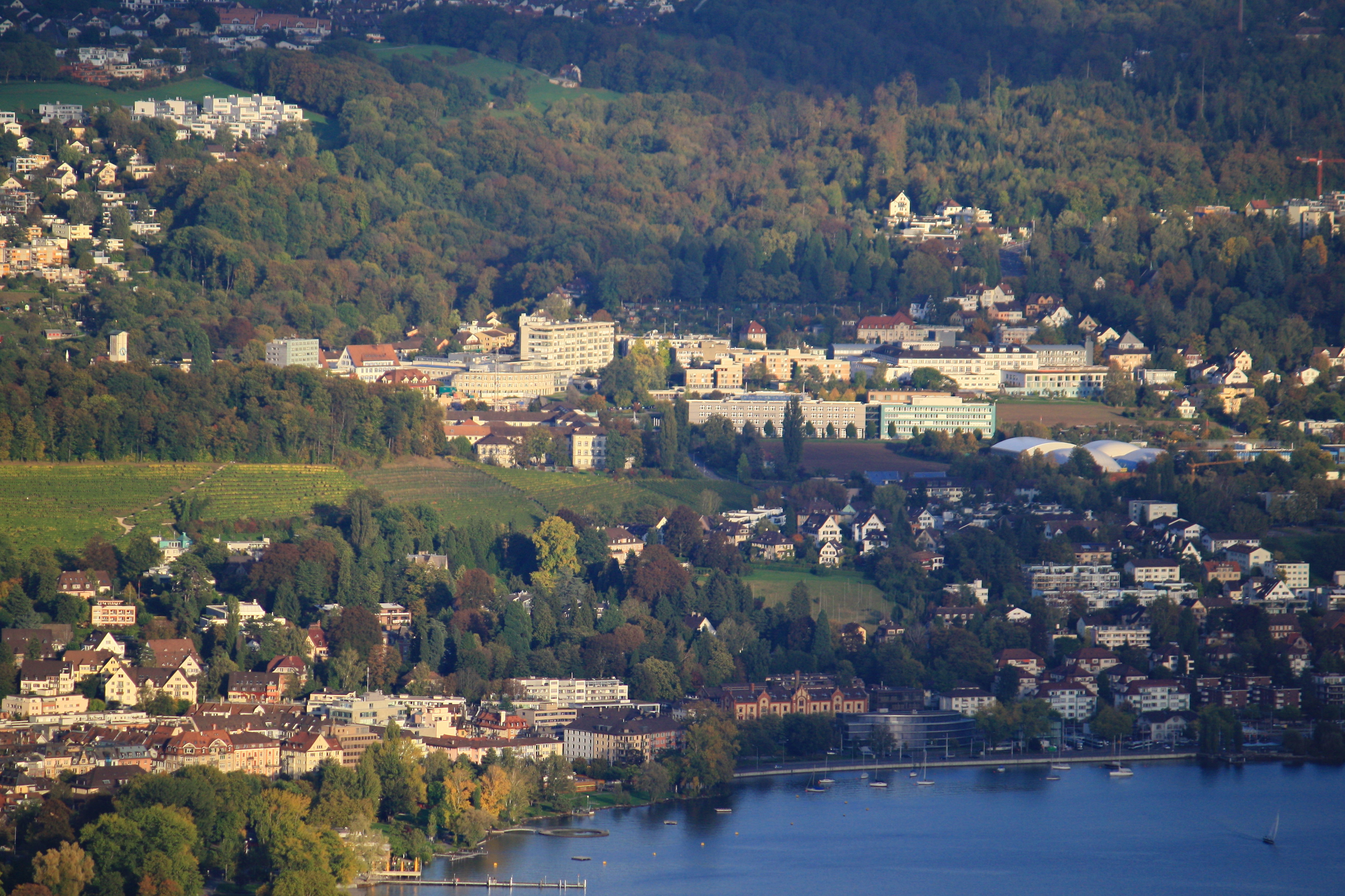 "Hospital quarter" in Zürich-Weinegg, as seen from Uetliberg Aussichtsturm, Hirslanden in the background and to the left, Seefeld in the foreground.